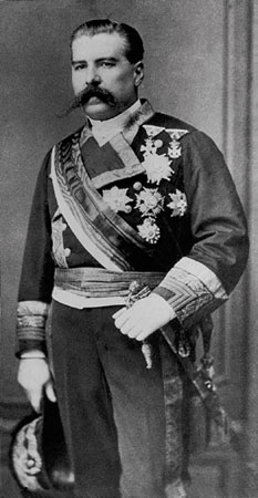 Photograph of José Malcampo, 3rd Marquis of San Rafael